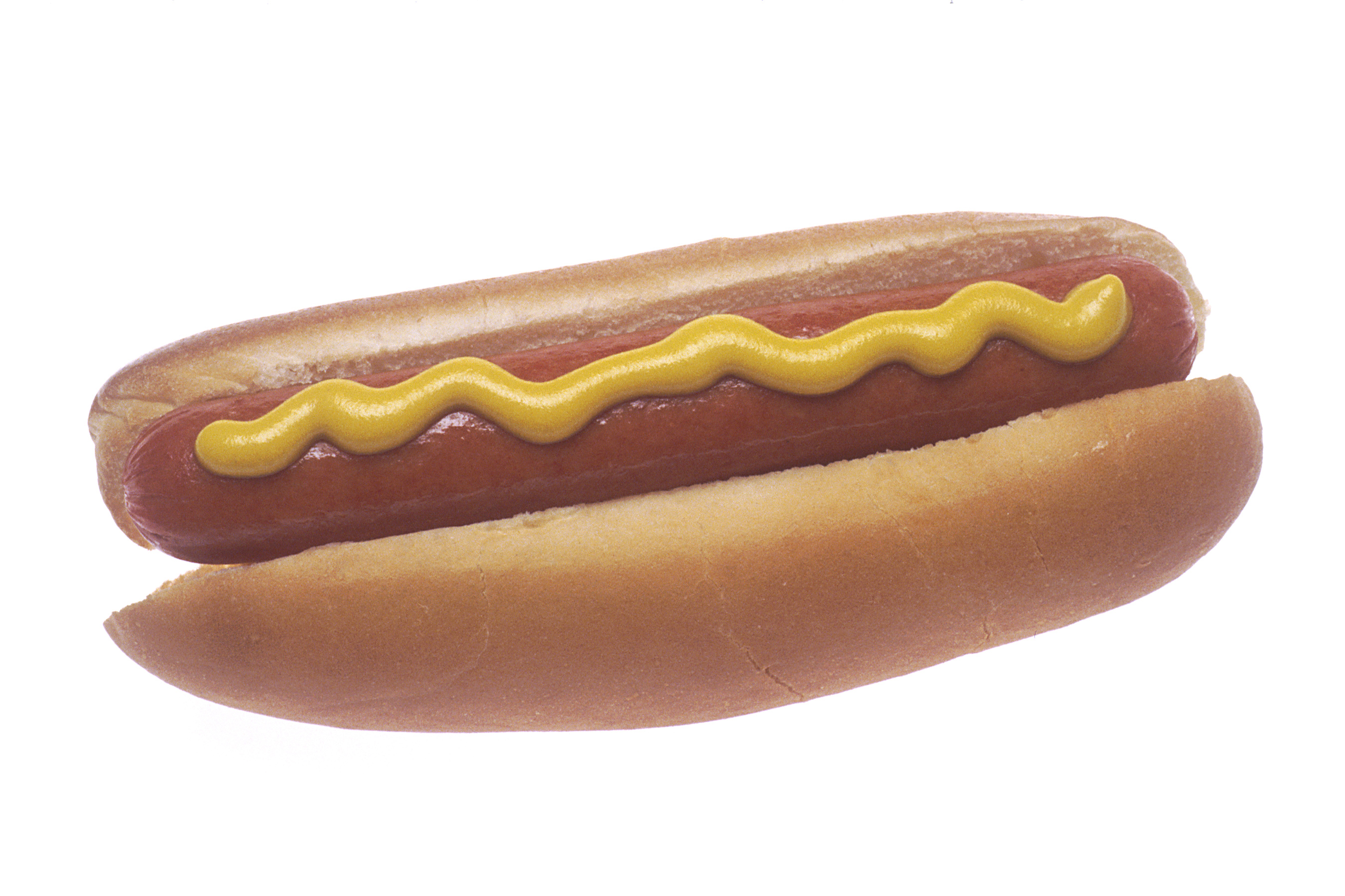 A cooked hot dog garnished with mustard.